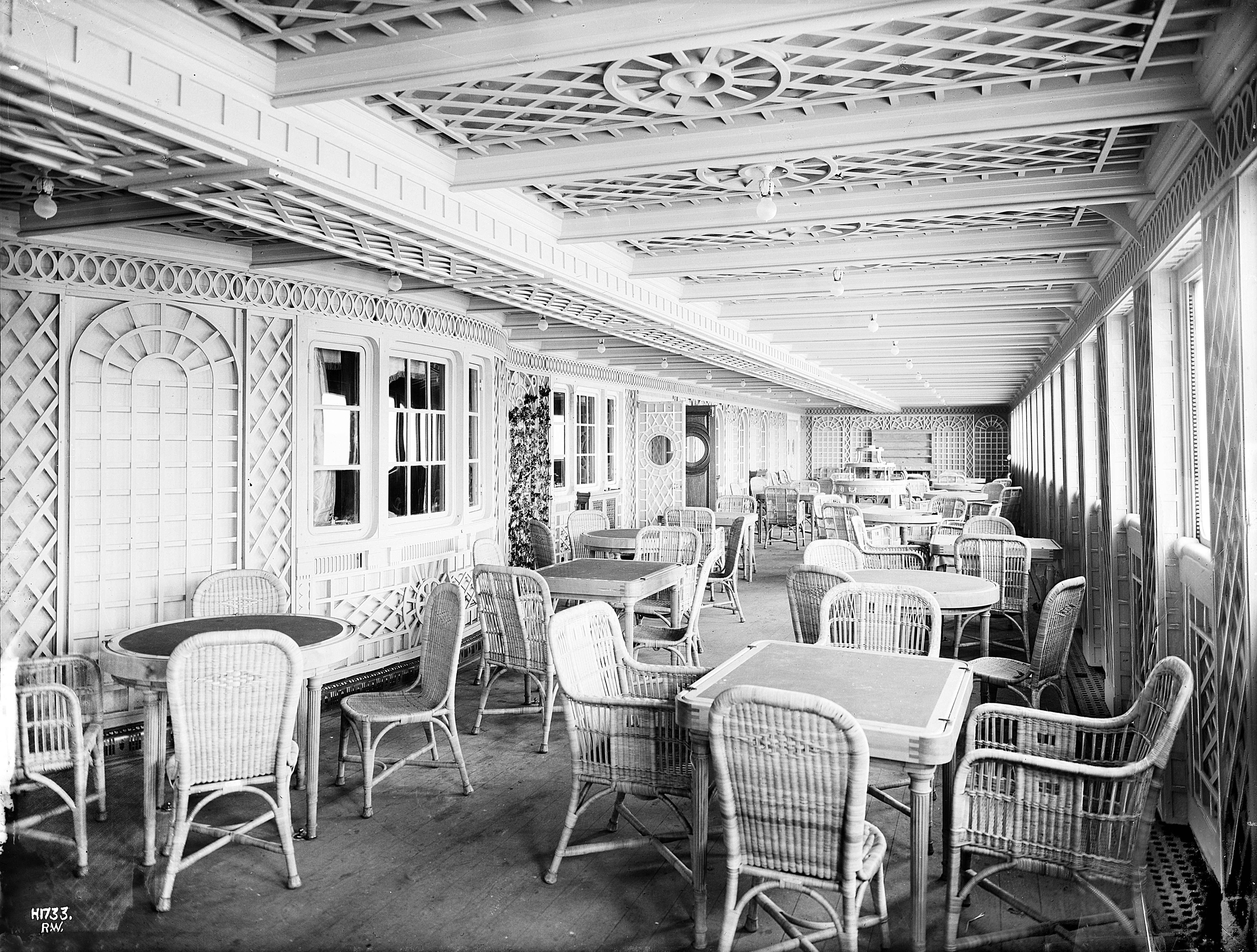 The cafe Parisien aboard the RMS Titanic.